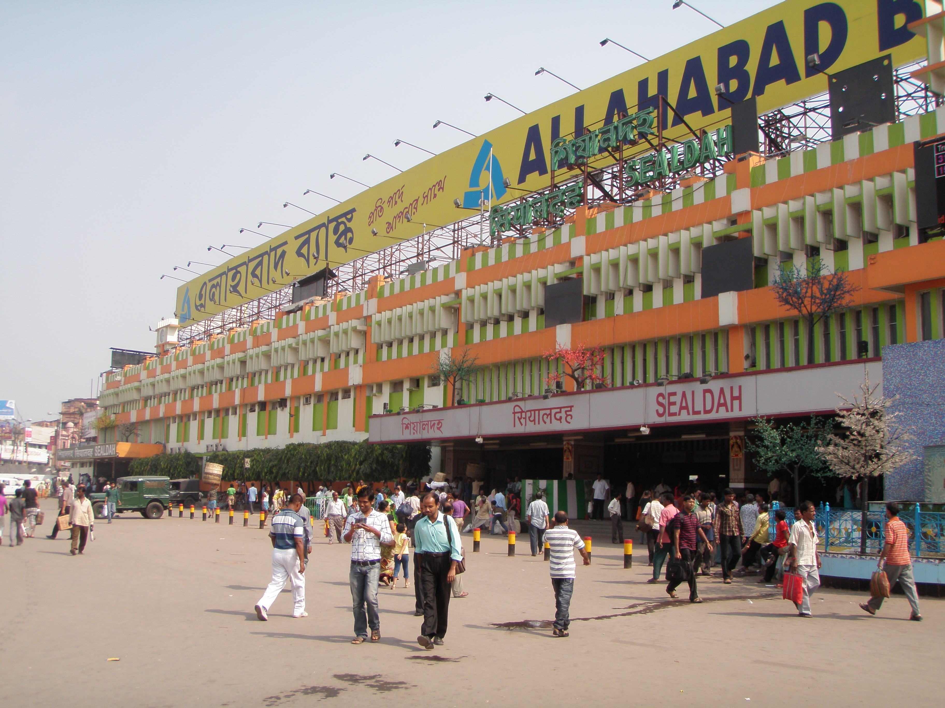 This media file is uploaded with India loves Wikipedia event. Sealdah Railway Station